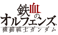 The logo of Mobile Suit Gundam: Iron-Blooded Orphans (Japanese: 機動戦士ガンダム 鉄血のオルフェンズ, Kidō Senshi Gandamu Tekketsu no Orufenzu), also referred to as G-Tekketsu (Gの鉄血).